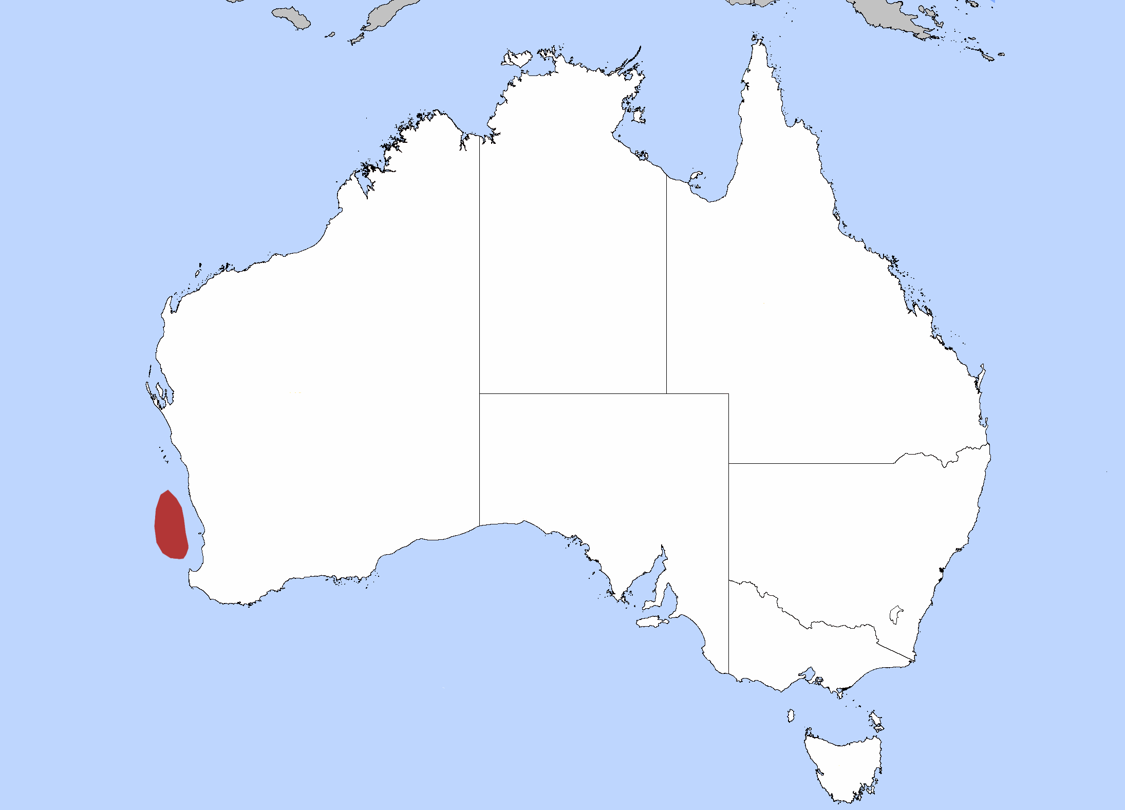 The Bighead Catshark's Distribution.